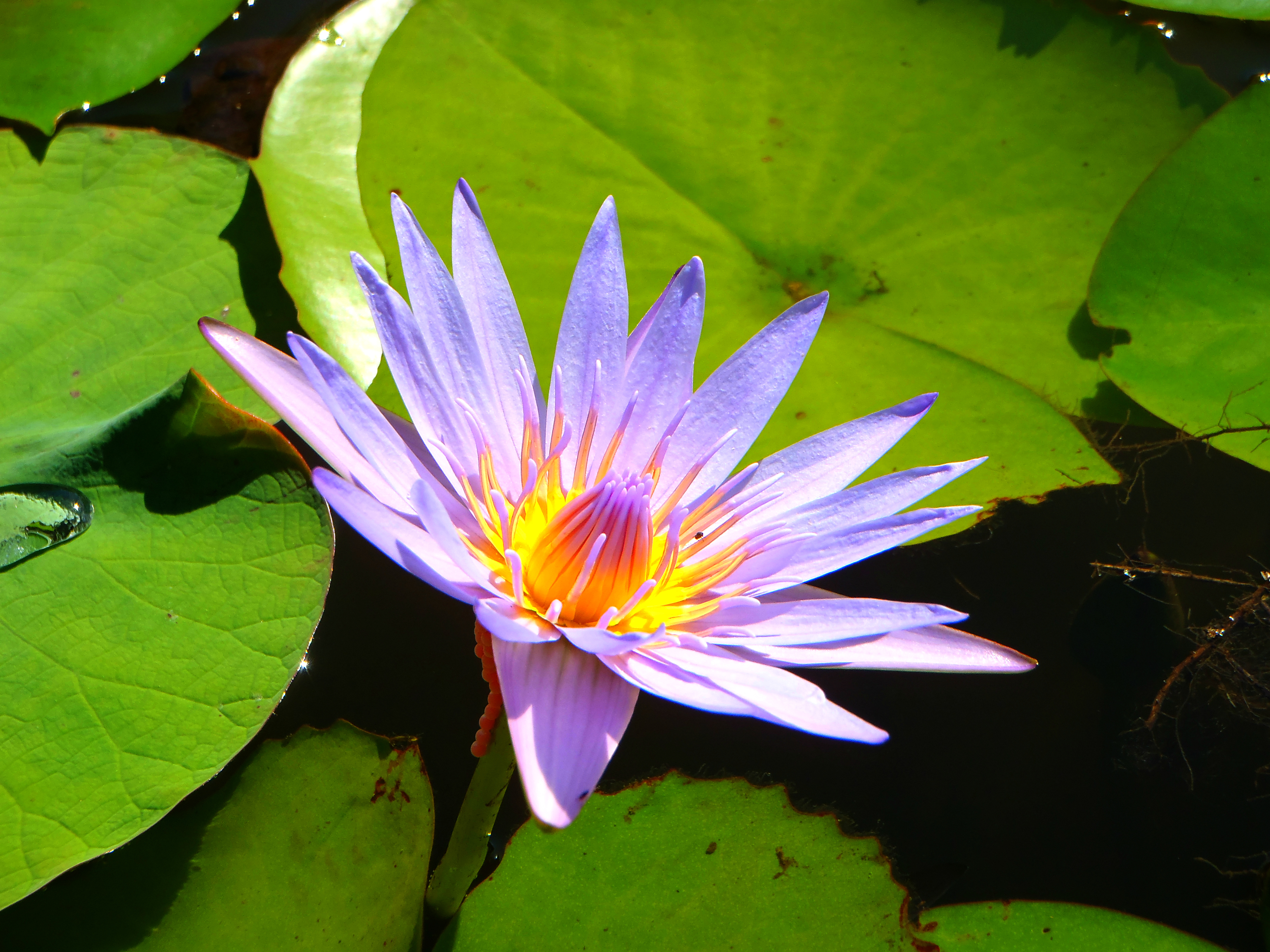 Nymphaea caerulea at the SSR Botanical Garden, Mauritius